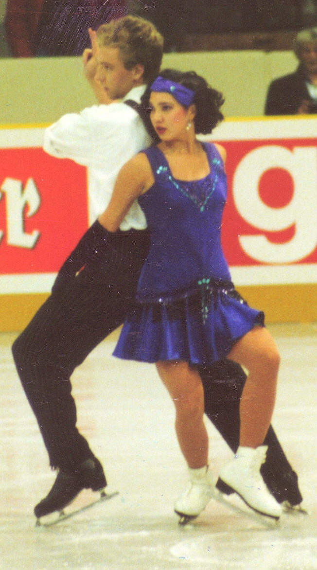 Jennifer Goolsbee and Hendryk Schamberger at the German championships 1992 in Berlin